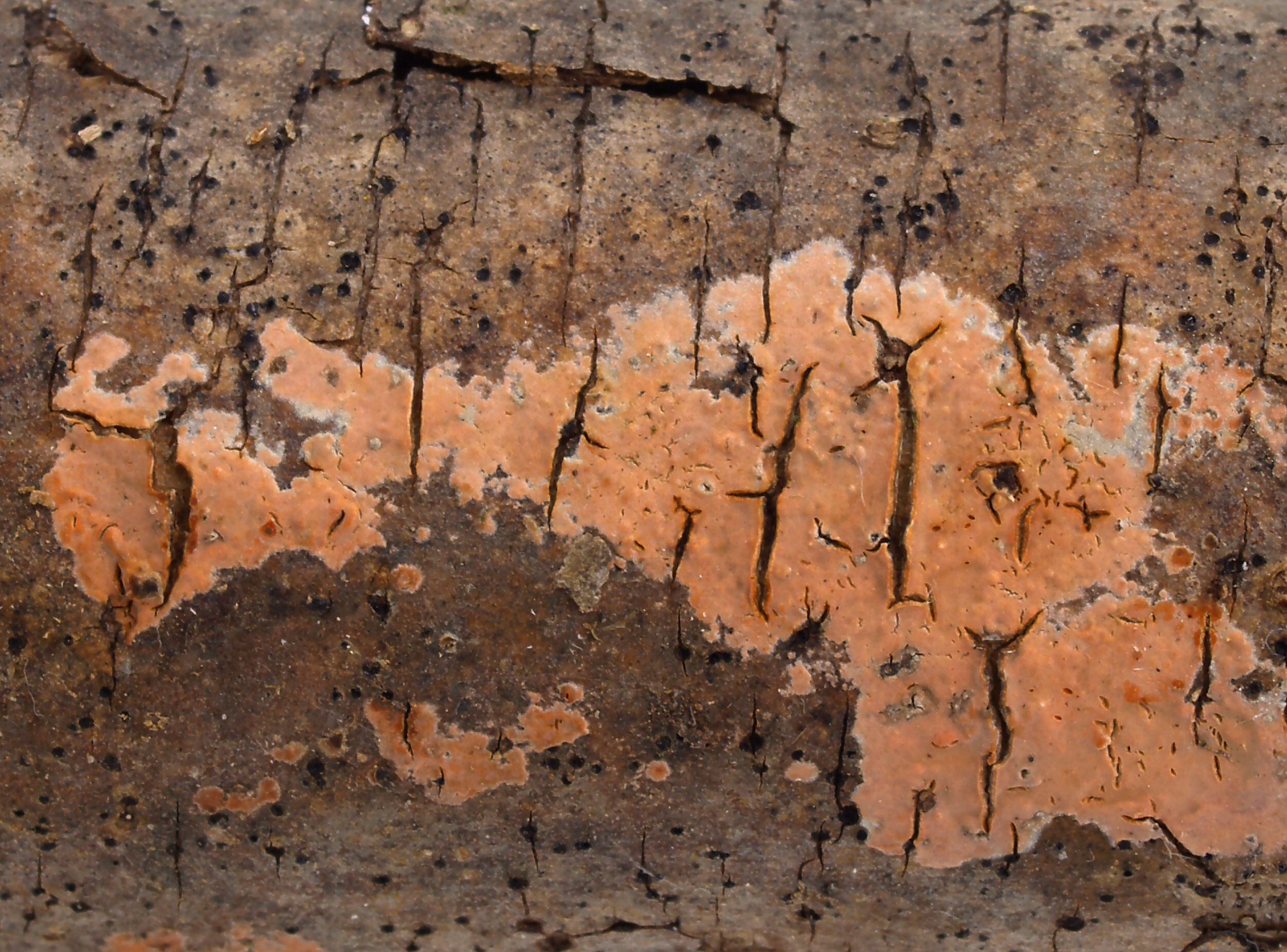 Rosy Crust Peniophora incarnata on Fraxinus excelsior. Germany.